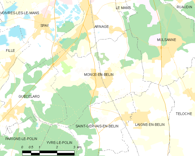 Map of French municipality